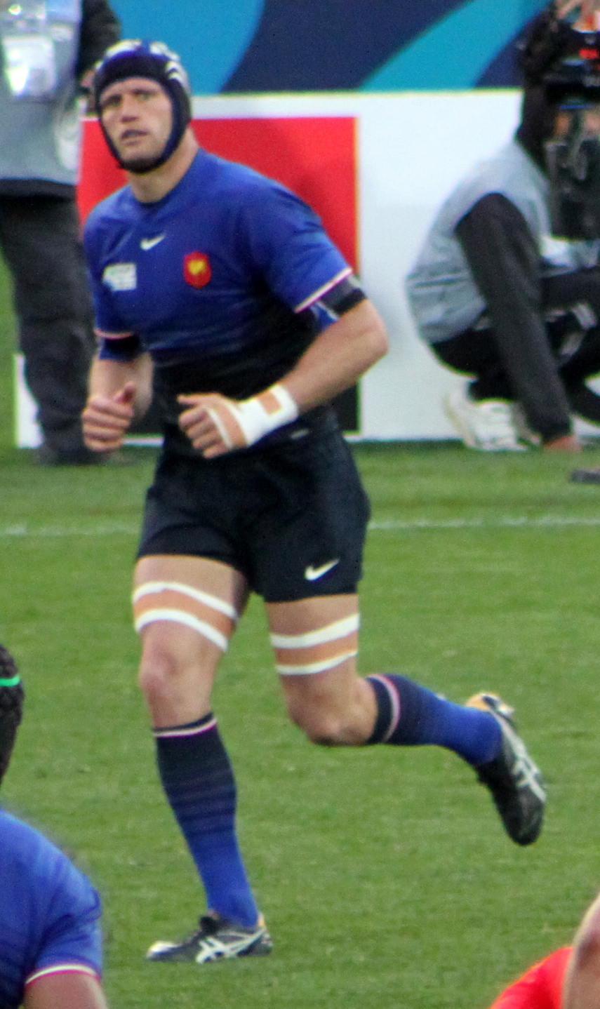 French rugby union player Julien Bonnaire during 2011 Rugby World Cup match against Tonga.